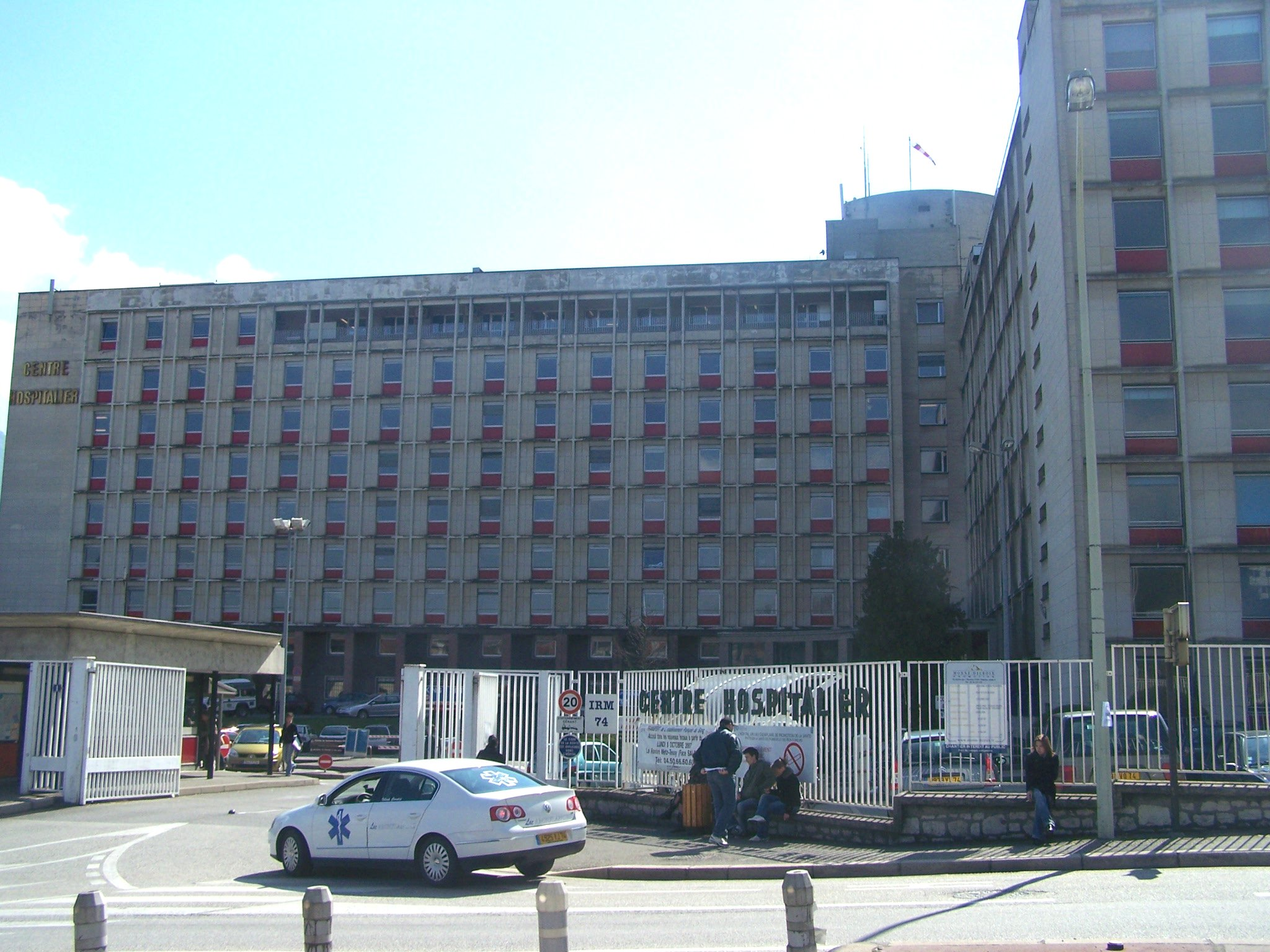 Sight of the former hospital center of Annecy in Haute-Savoie, France, before its closing down in 2009.